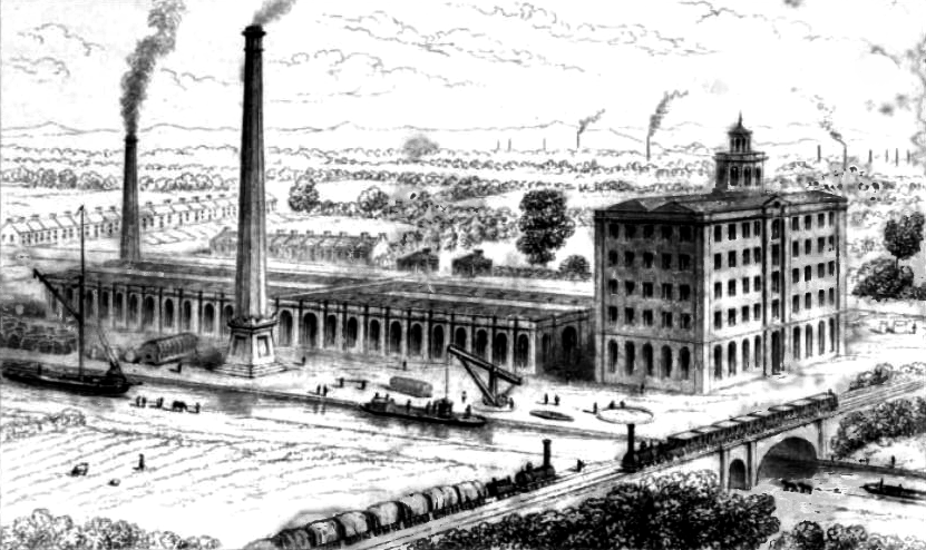 An image of the Bridgewater Foundry, alongside the Bridgewater Canal and the Liverpool to Manchester railway line at Patricroft.